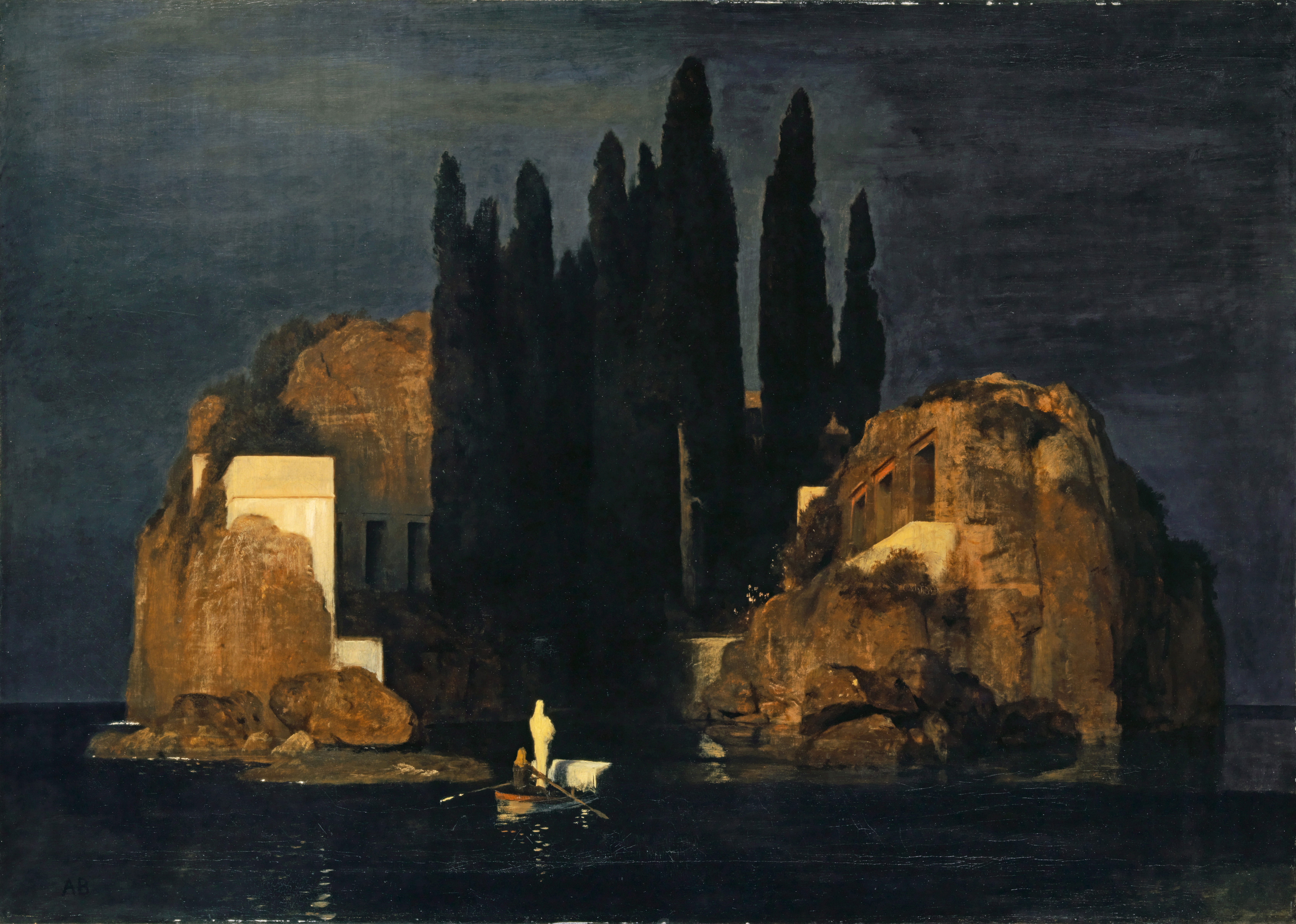 1th version